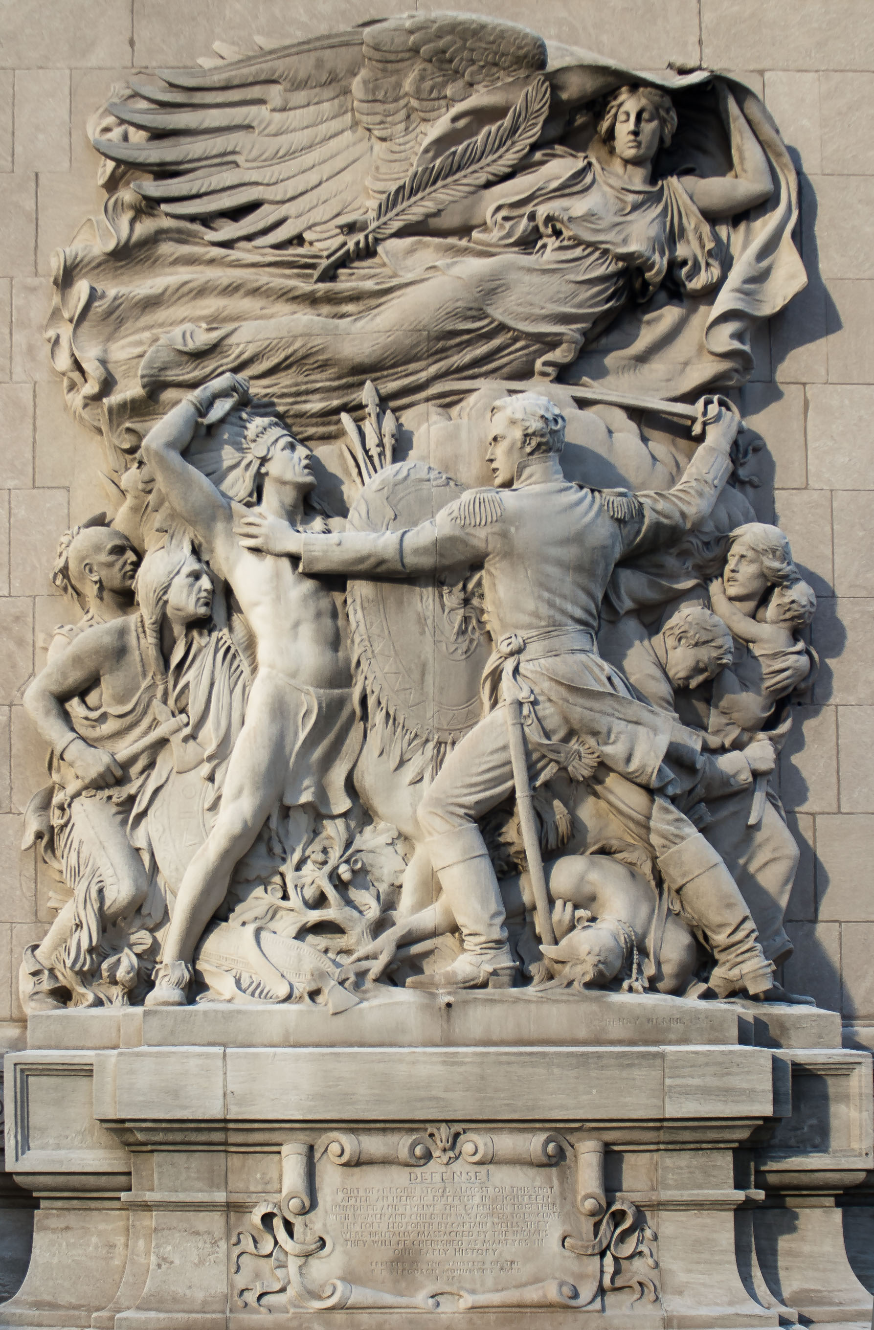 Defense by Henry Herring, 1928. This sculpture adorns the wall of the south western bridge tender's house on Michigan Avenue Bridge in Chicago, Illinois.